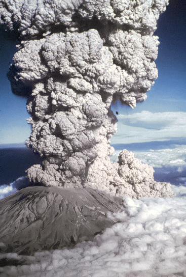 Mount St. Helens erupting